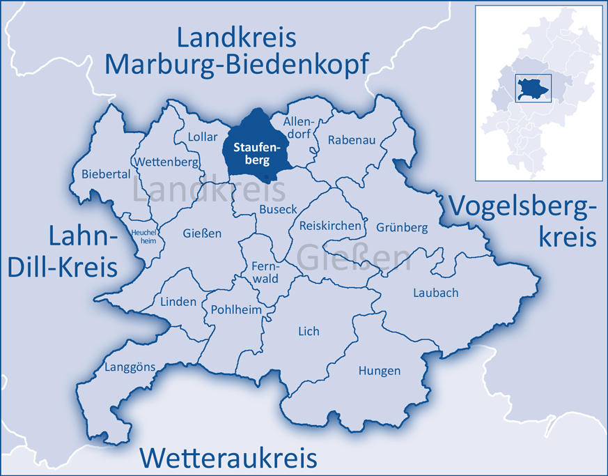 The map shows a district in the area of Gießen (district)